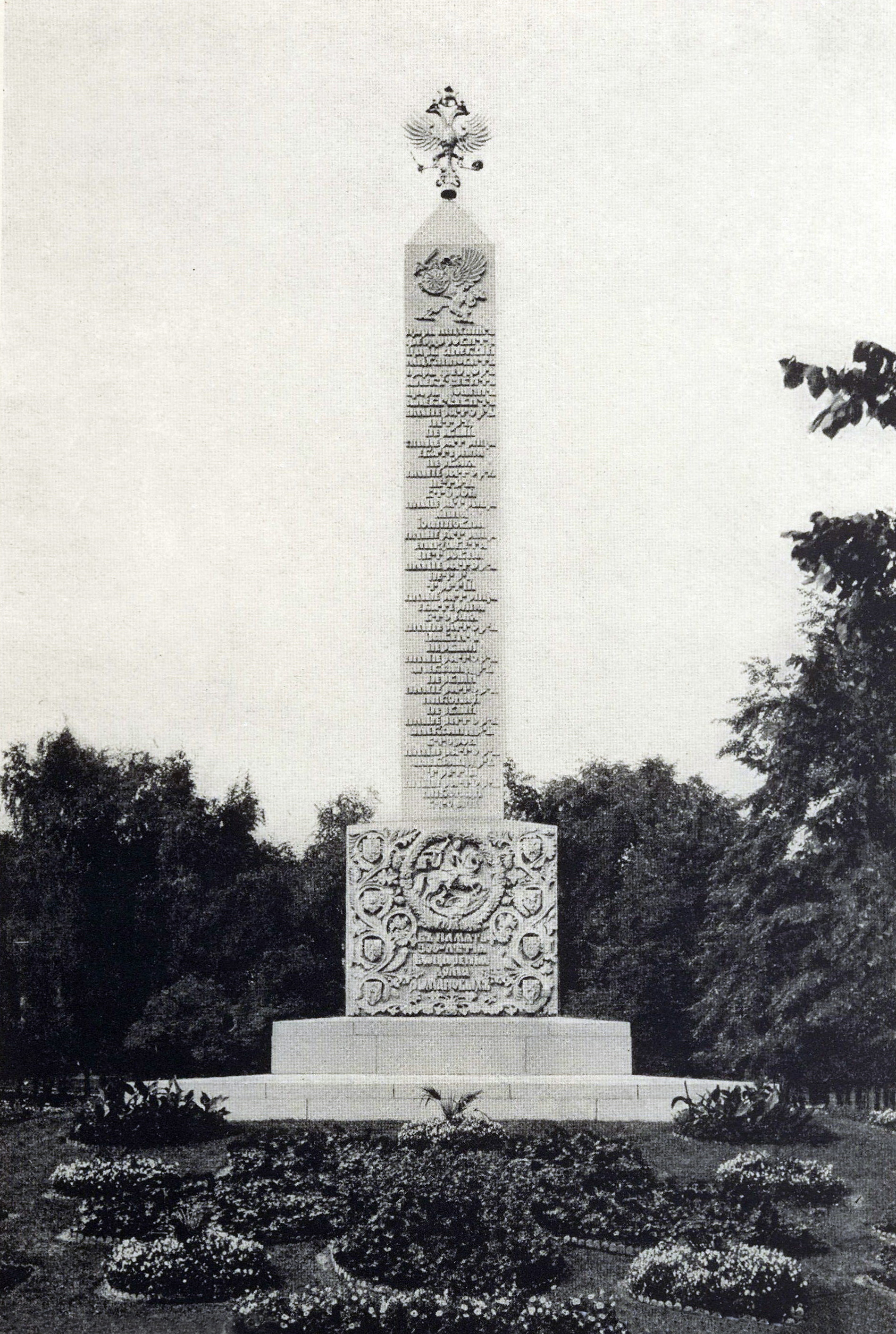 Romanov Tricentenarial Memorial in Moscow Alexander Garden, erected in 1914 commemorating 300 years of the Romanov dynasty. Pre-1918 appearance; later the eagle and the COA were removed, and the names of tsars and emperors replaced with the names of revolutionaries or socialists (including Sir Thomas More and Gerrard Winstanley).